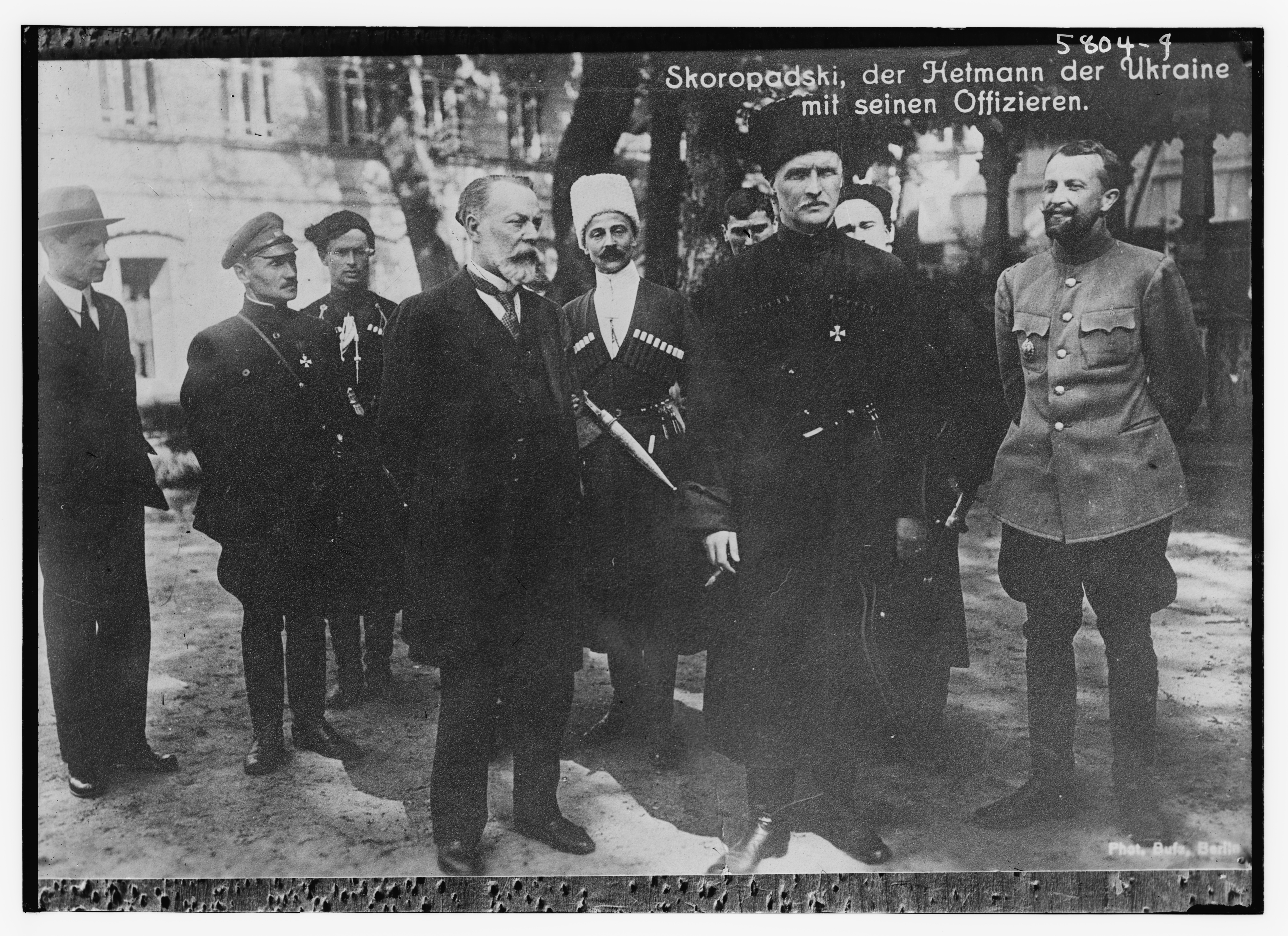 Title: Skoropadski, der Hetmann der Ukraine mit seinen Offizieren Abstract/medium: 1 negative : glass ; 5 x 7 in. or smaller.